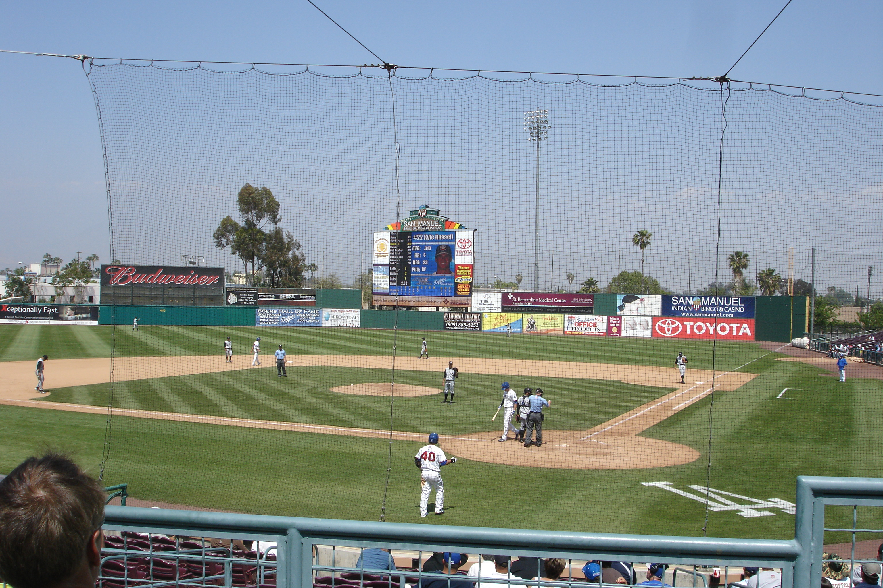 A photo of Arrowhead Credit Union Park taken in May 2010 as the 66ers play a game.